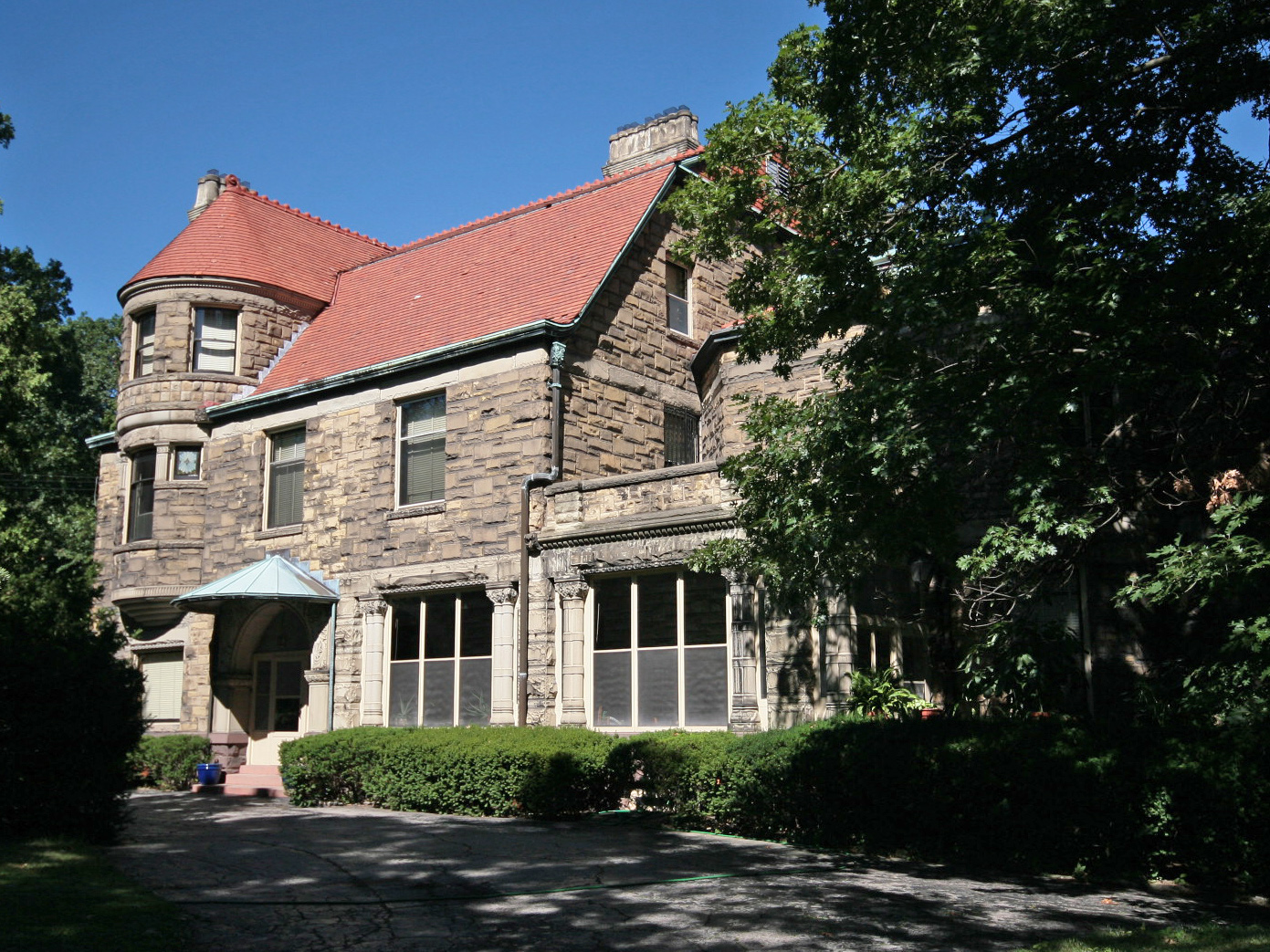 Alfred T. Goshorn House in the Cincinnati neighborhood of Clifton. Photo by Greg Hume.